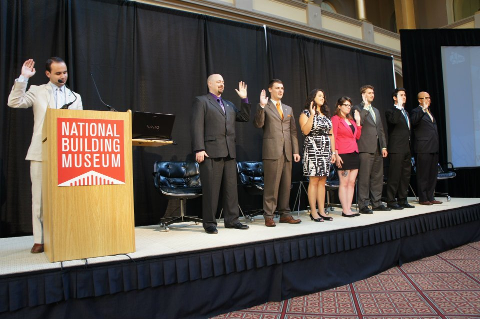 AIAS Board of Directors Ceremony